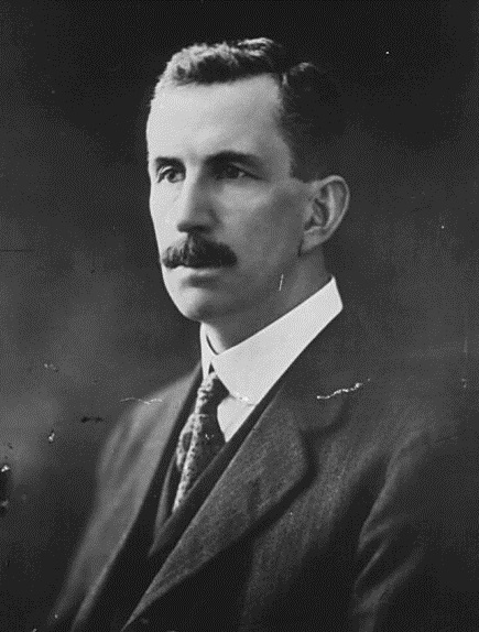 Official portrait of Thomas Alexander Crerar, PC CC (June 17, 1876 – April 11, 1975)